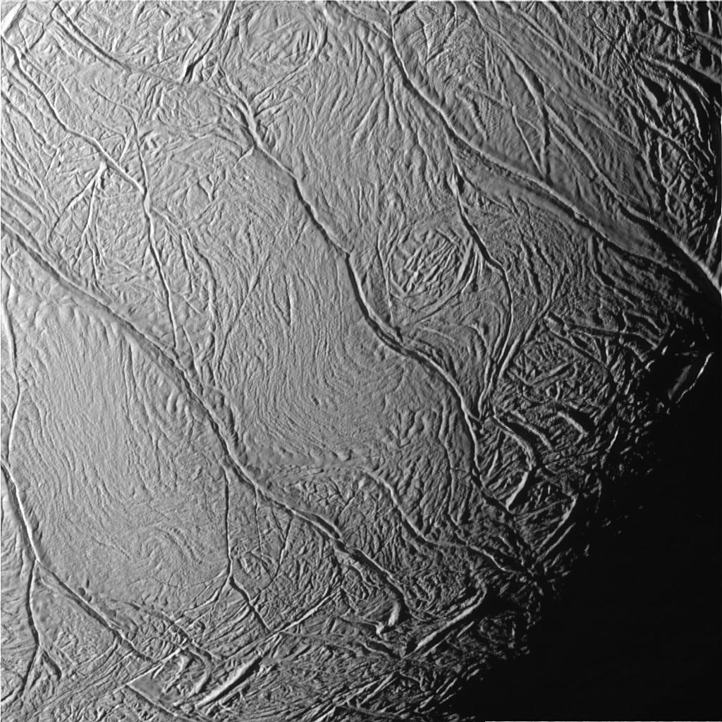 This close-up view of Saturn's moon Enceladus looks toward the moon's terminator (the transition from day to night) and shows a distinctive pattern of continuous, ridged, slightly curved and roughly parallel faults within the moon's southern polar latitudes. These surface features have been informally referred to by imaging scientists as "tiger stripes" due to their distinctly stripe-like appearance when viewed in false color (see PIA06249). Illumination of the scene is from the lower left. The image was obtained in visible light with the Cassini spacecraft narrow-angle camera on July 14, 2005, at a distance of about 20,720 kilometers (12,880 miles) from Enceladus, and at a Sun-Enceladus-spacecraft, or phase, angle of 46 degrees. The image scale is 122 meters (400 feet) per pixel. The image's contrast has been enhanced to aid visibility of surface features. The Cassini-Huygens mission is a cooperative project of NASA, the European Space Agency and the Italian Space Agency. The Jet Propulsion Laboratory, a division of the California Institute of Technology in Pasadena, manages the mission for NASA's Science Mission Directorate, Washington, D.C. The Cassini orbiter and its two onboard cameras were designed, developed and assembled at JPL. The imaging team is based at the Space Science Institute, Boulder, Colo.